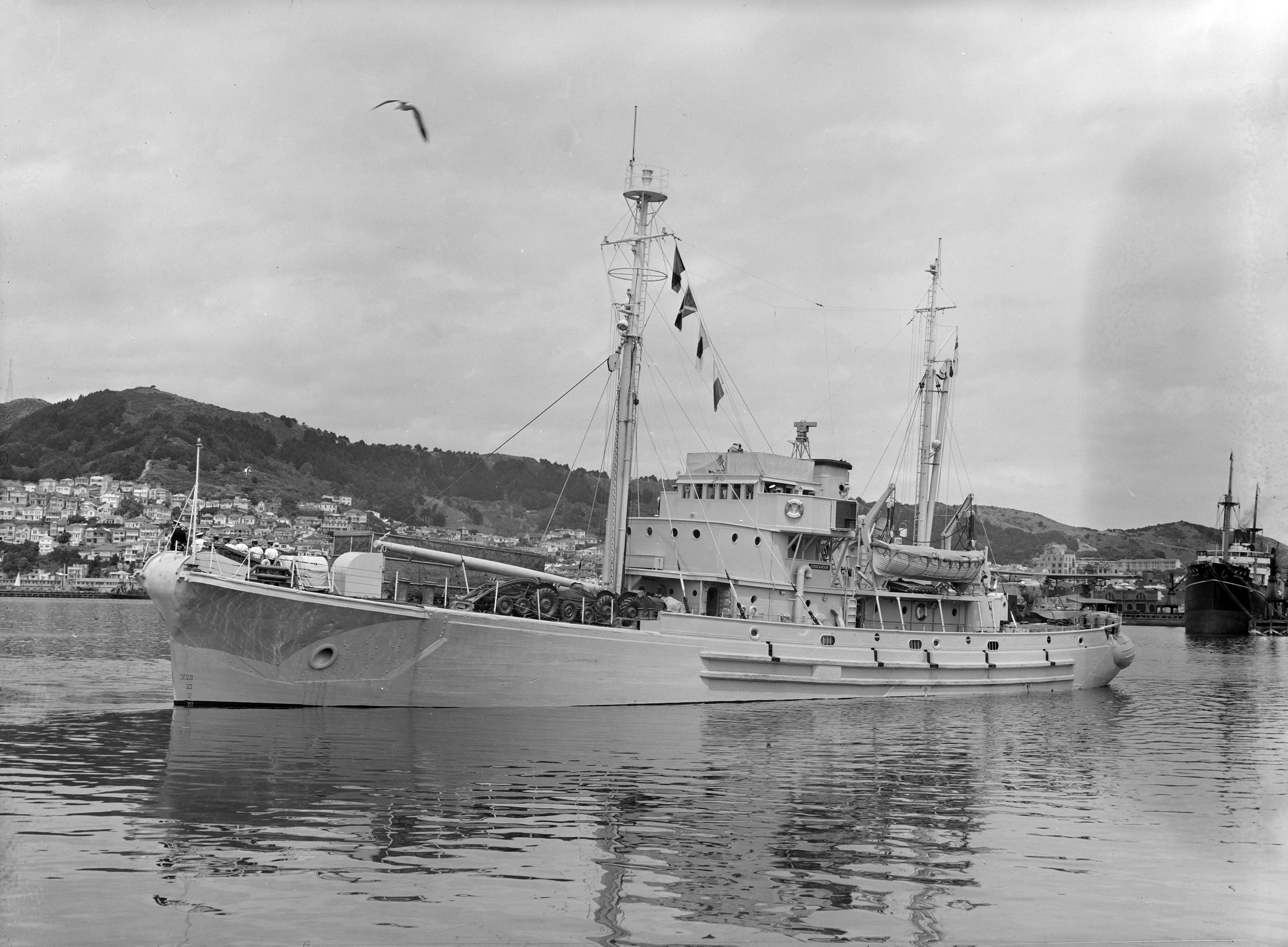 HMNZS Endeavour, the Antarctic expedition ship, Wellington Harbour, New Zealand. Photograph taken 1956 for The Evening Post by an unidentified staff photographer. Physical Description: Cellulosic film negative 3.25 x 4.25 inches.